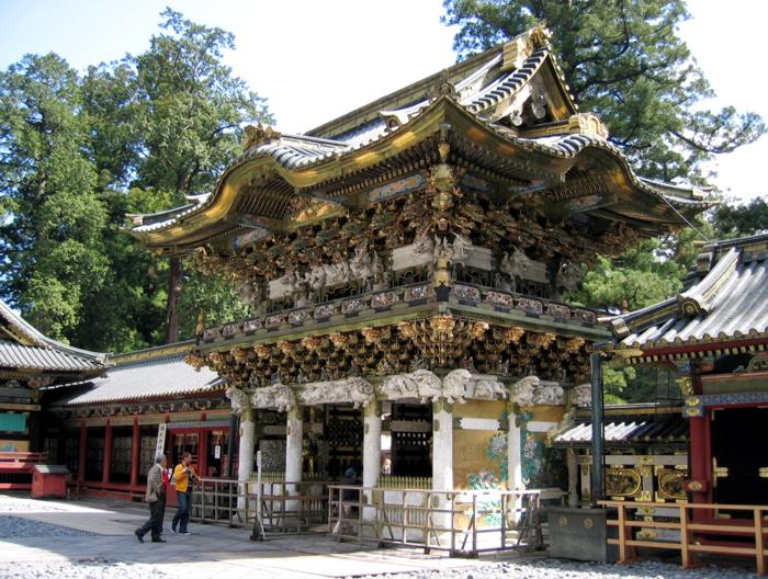 The Yomeimon Gate of Tosho-gu Shrine, Nikko, Japan. Photograph by Michael Reeve, 5 April 2004.